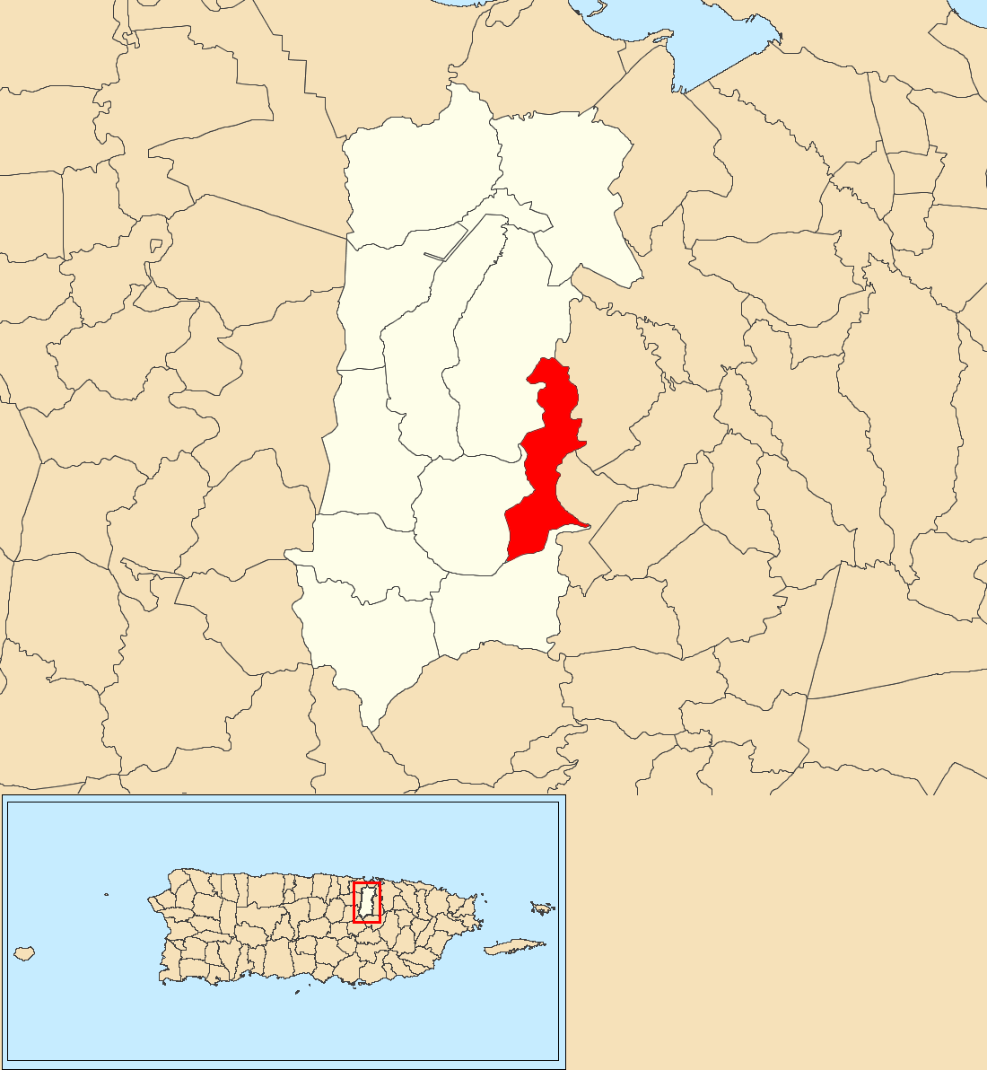 Guaraguao Abajo, Bayamón, Puerto Rico locator map